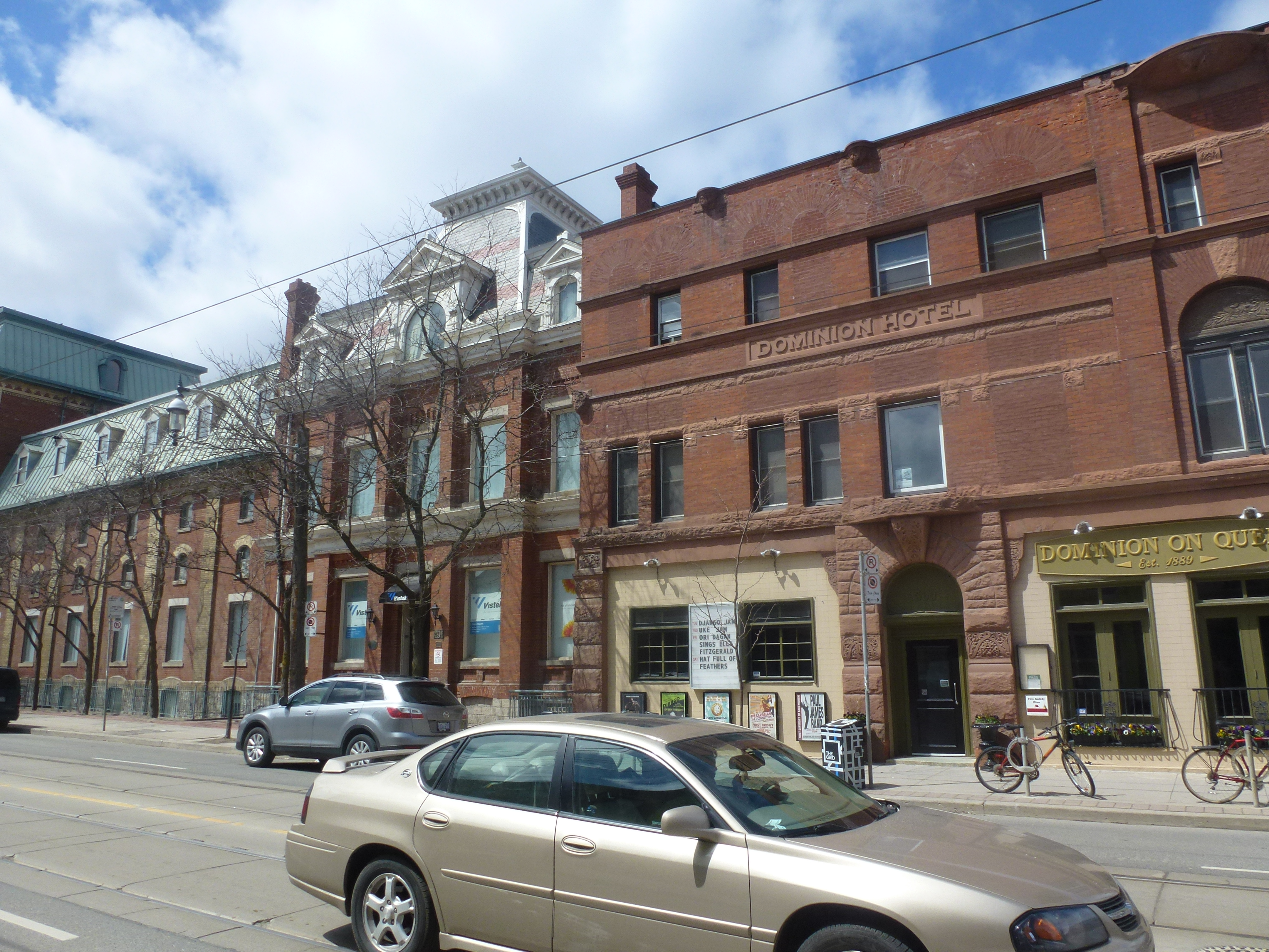 Historic Dominion Hotel, NW corner of Sumach and Queen, 2014 04 26 -c